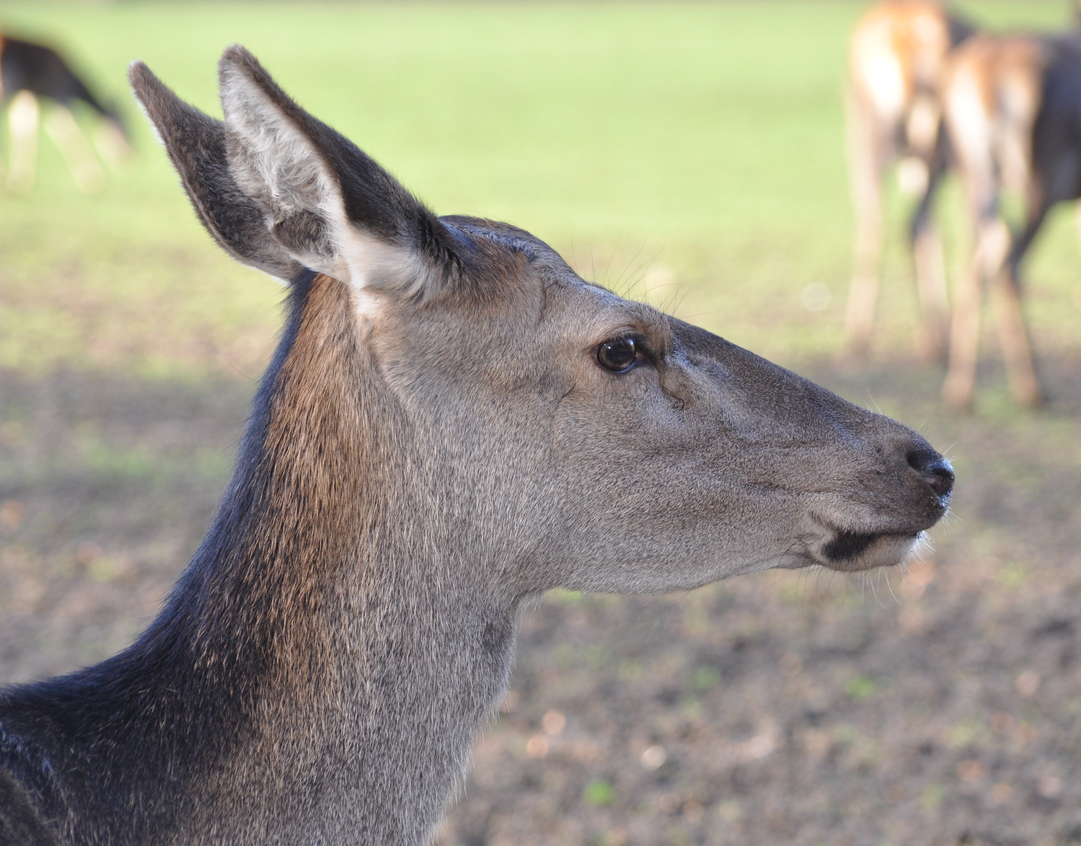 Red Deer (Cervus elaphus) in the Lüneburg Heath wildlife park, Germany.